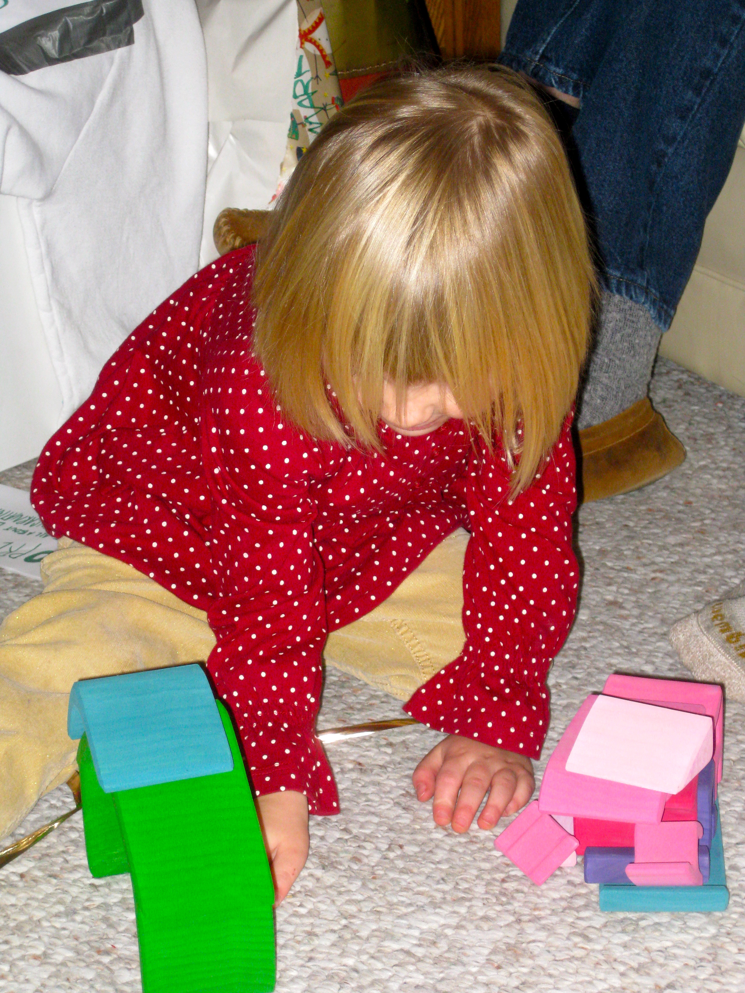 Child playing with wooden blocks.